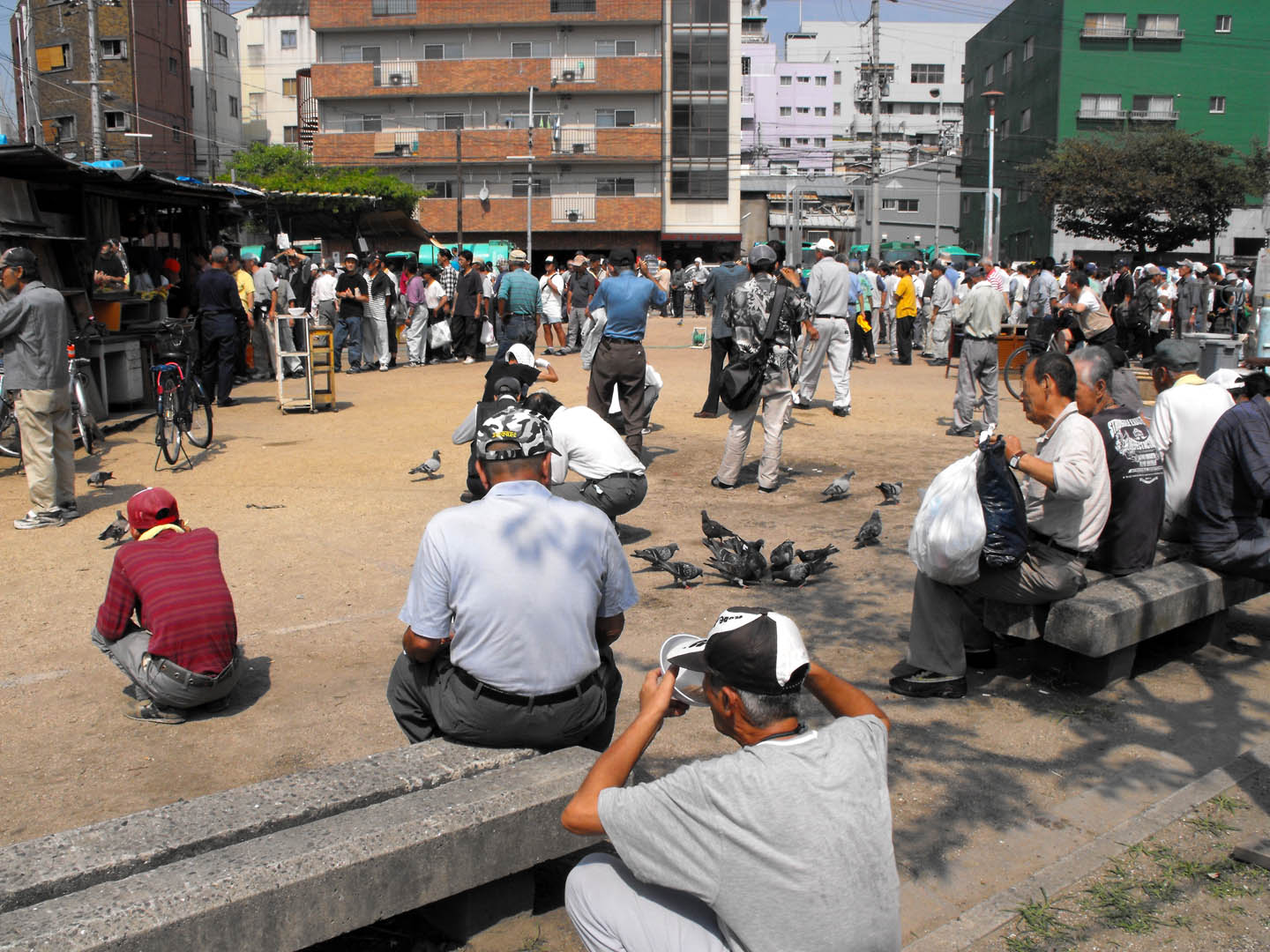 Airin-District(Slum), Osaka, Japan